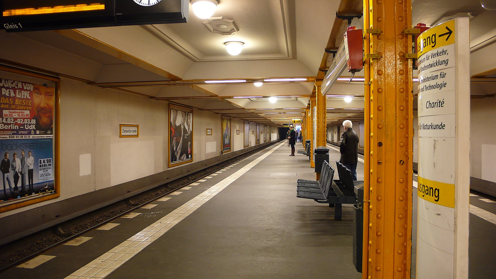 subway Zinnowitzer Str.